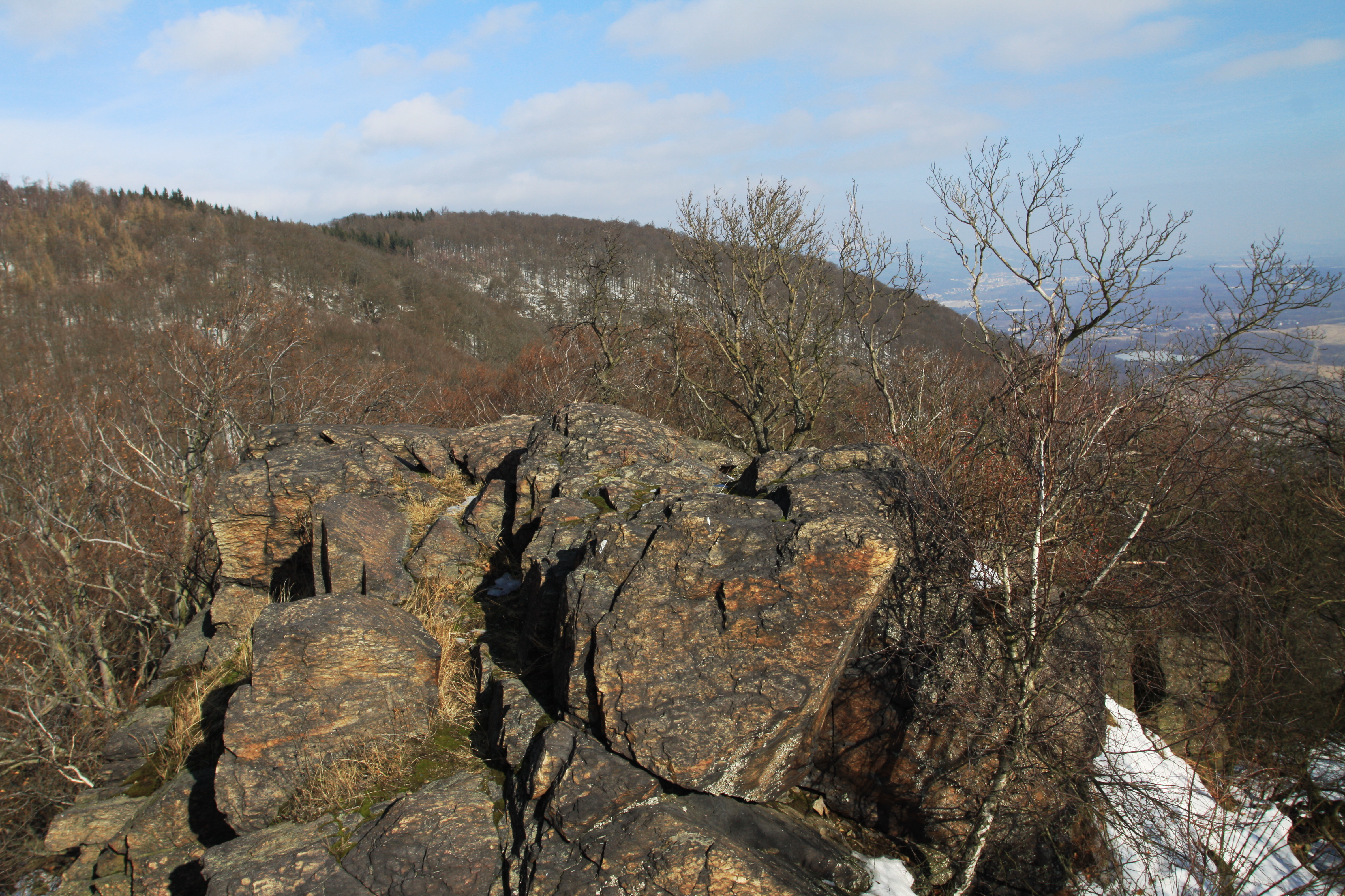 National nature reserve Jezerka near Horní Jiřetín in Most District, Czech Republic